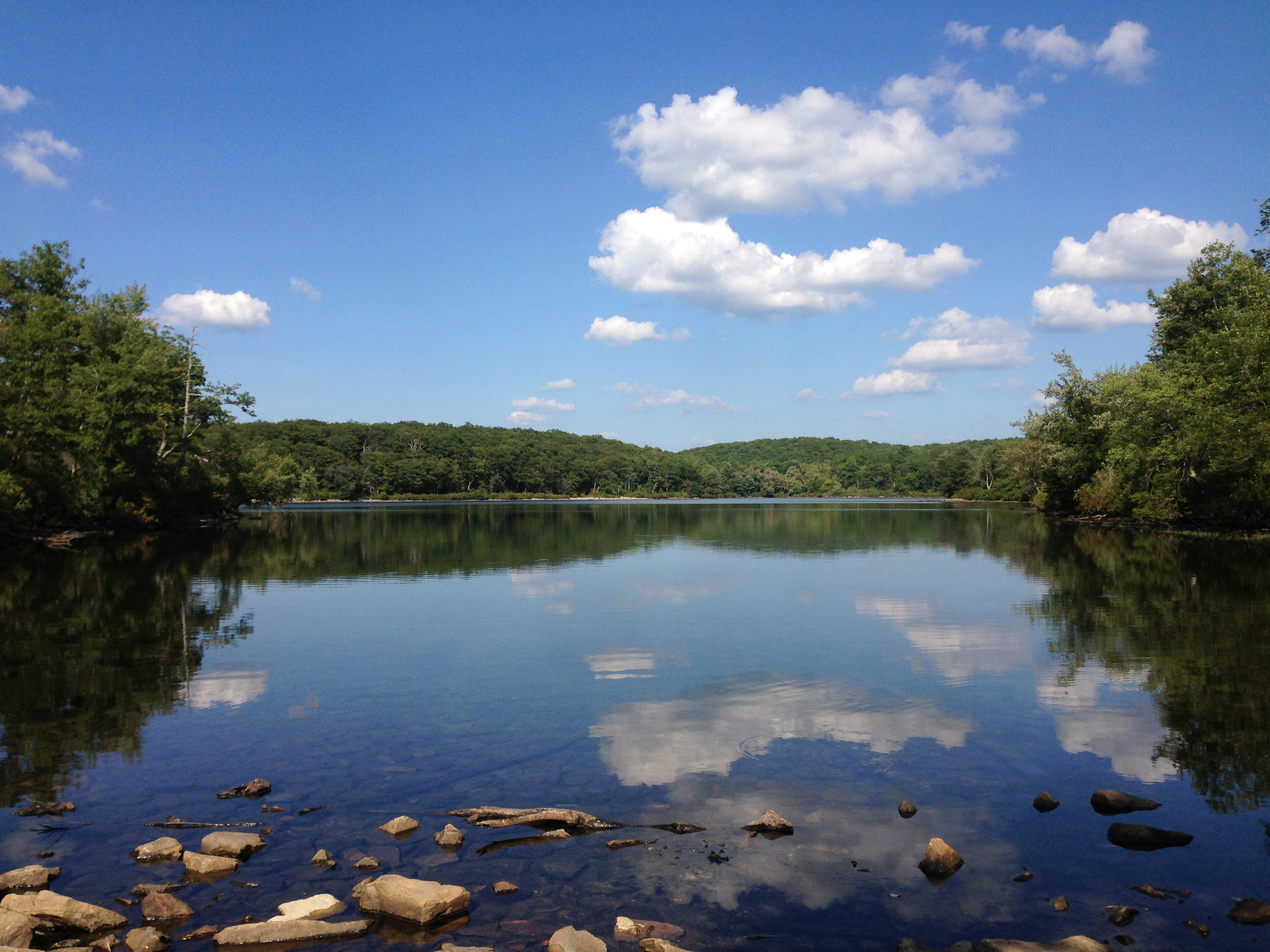 View east-northeast across Sunfish Pond from the Appalachian Trail about 3.7 miles northeast of the Delaware Water Gap in Worthington State Forest, New Jersey